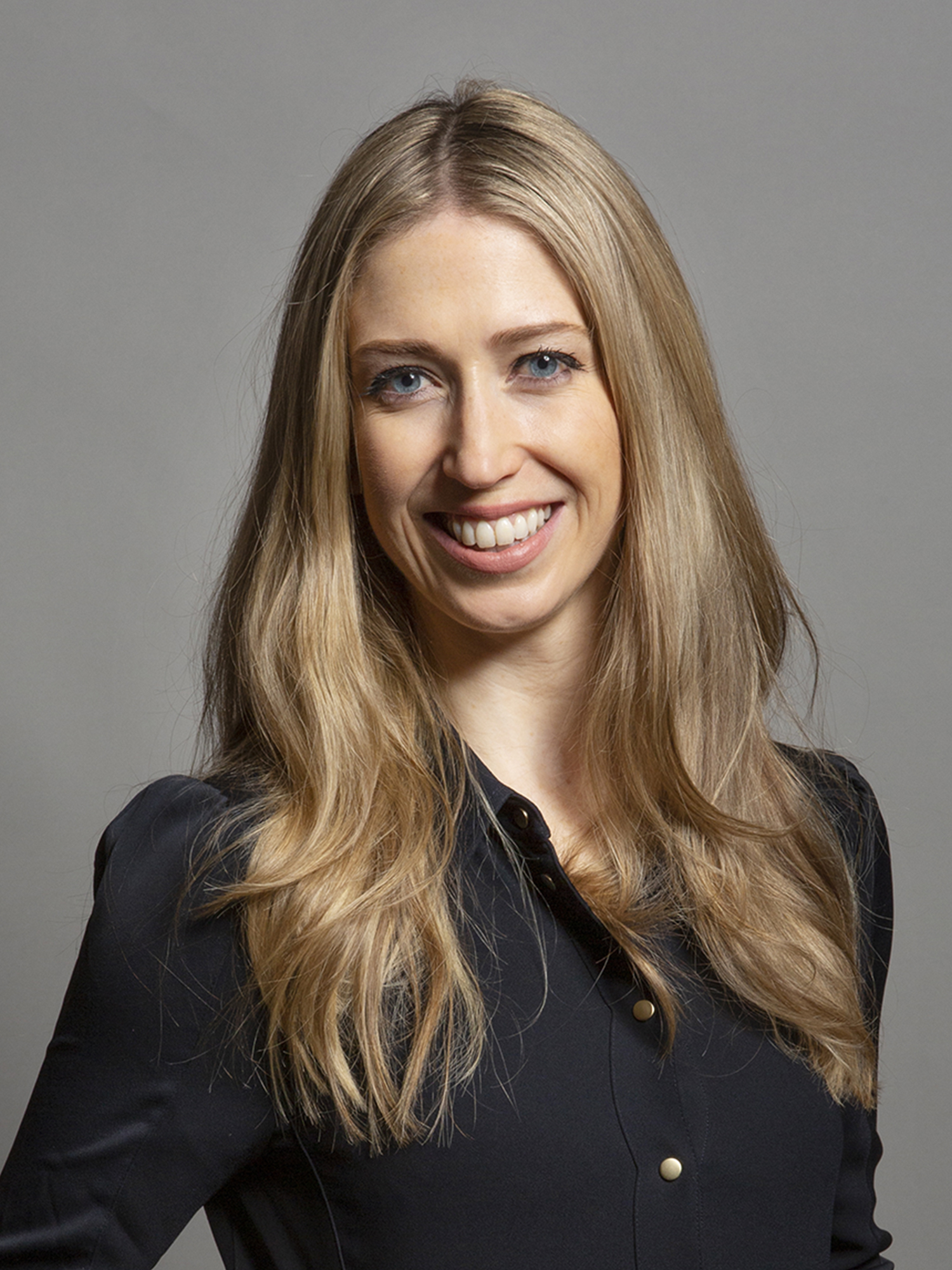 Official portrait of Laura Trott MP 3×4 portrait of Laura Trott